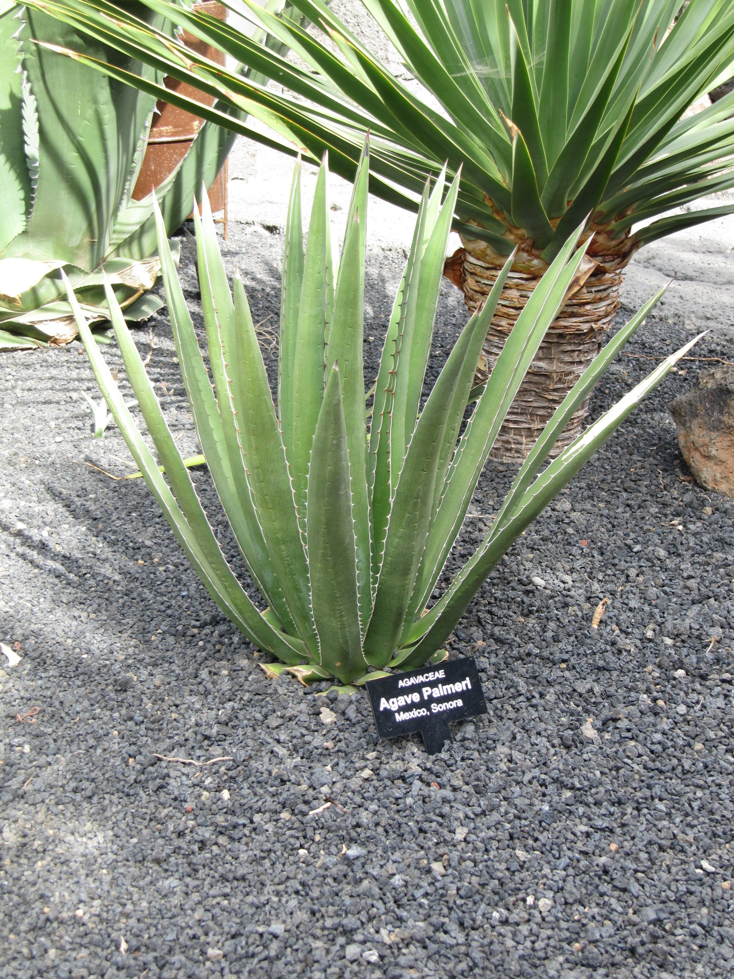 Misidentified plant, this is NOT Agave palmeri